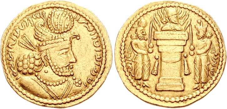 Coin of Hormizd ii, Sasanian king (302–309)